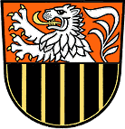 Coat of Arms of Schönbrunn